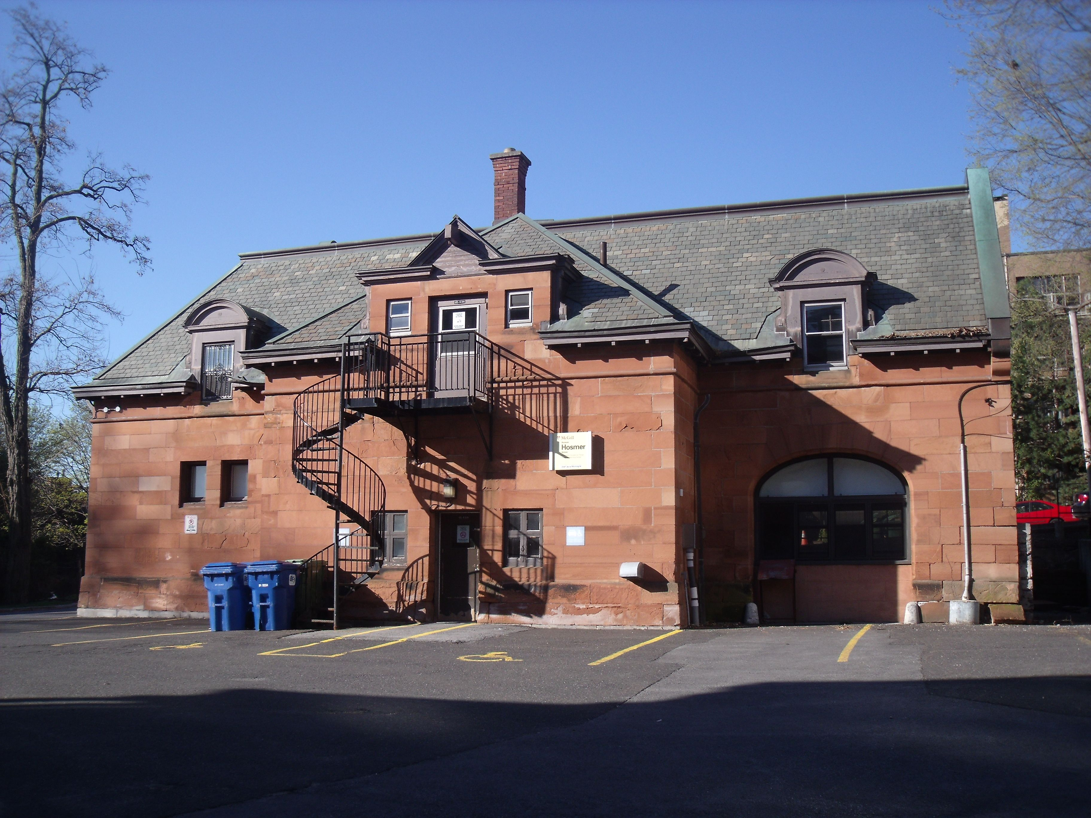 The Charles Rudolph Hosmer House's Annex (1901), 3630 Sir-William-Osler Promenade (Drummond Street), Montreal, Quebec, Canada.